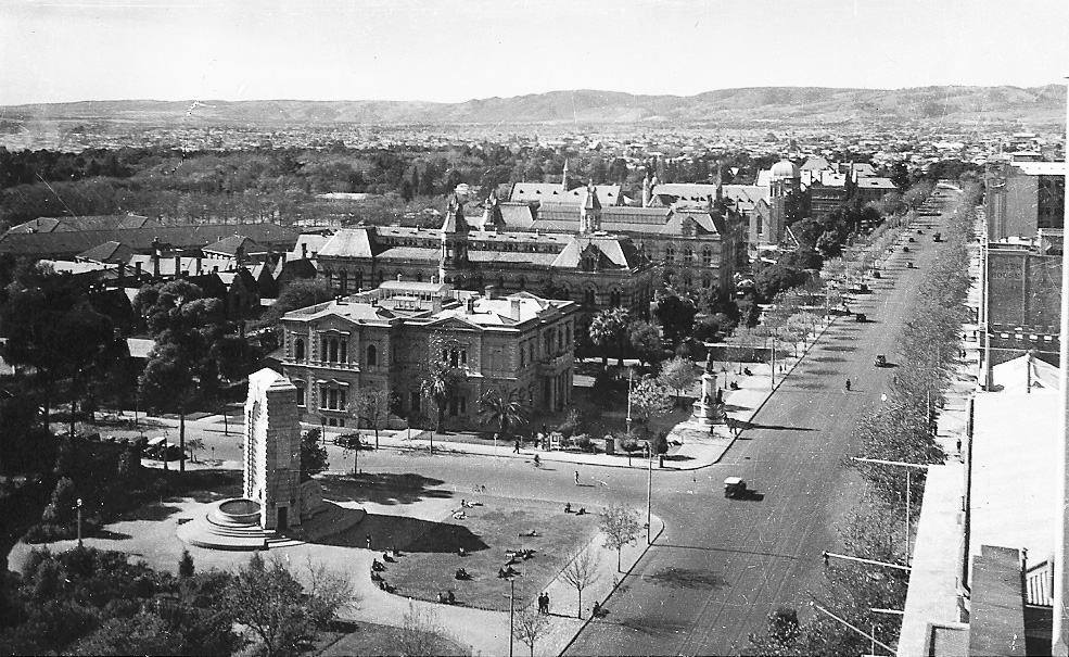 View of North Terrace, Adelaide, looking east from near King William Street, Adelaide. In the foreground can be seen the National War Memorial.